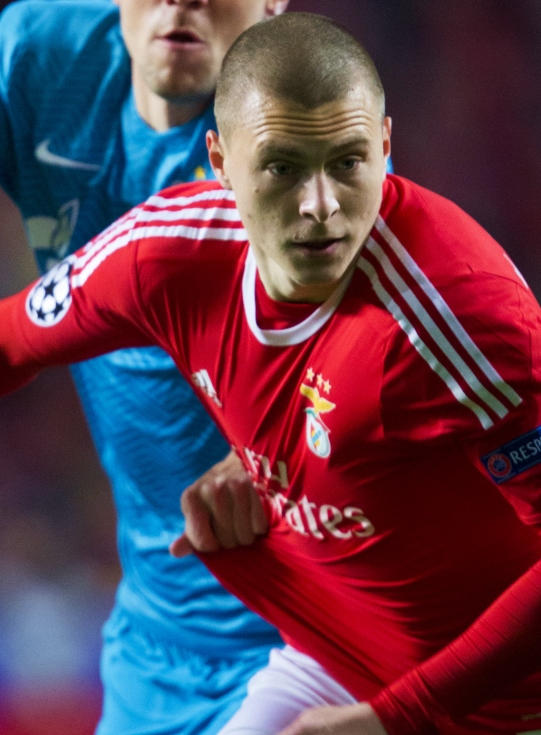 Victor Lindelöf